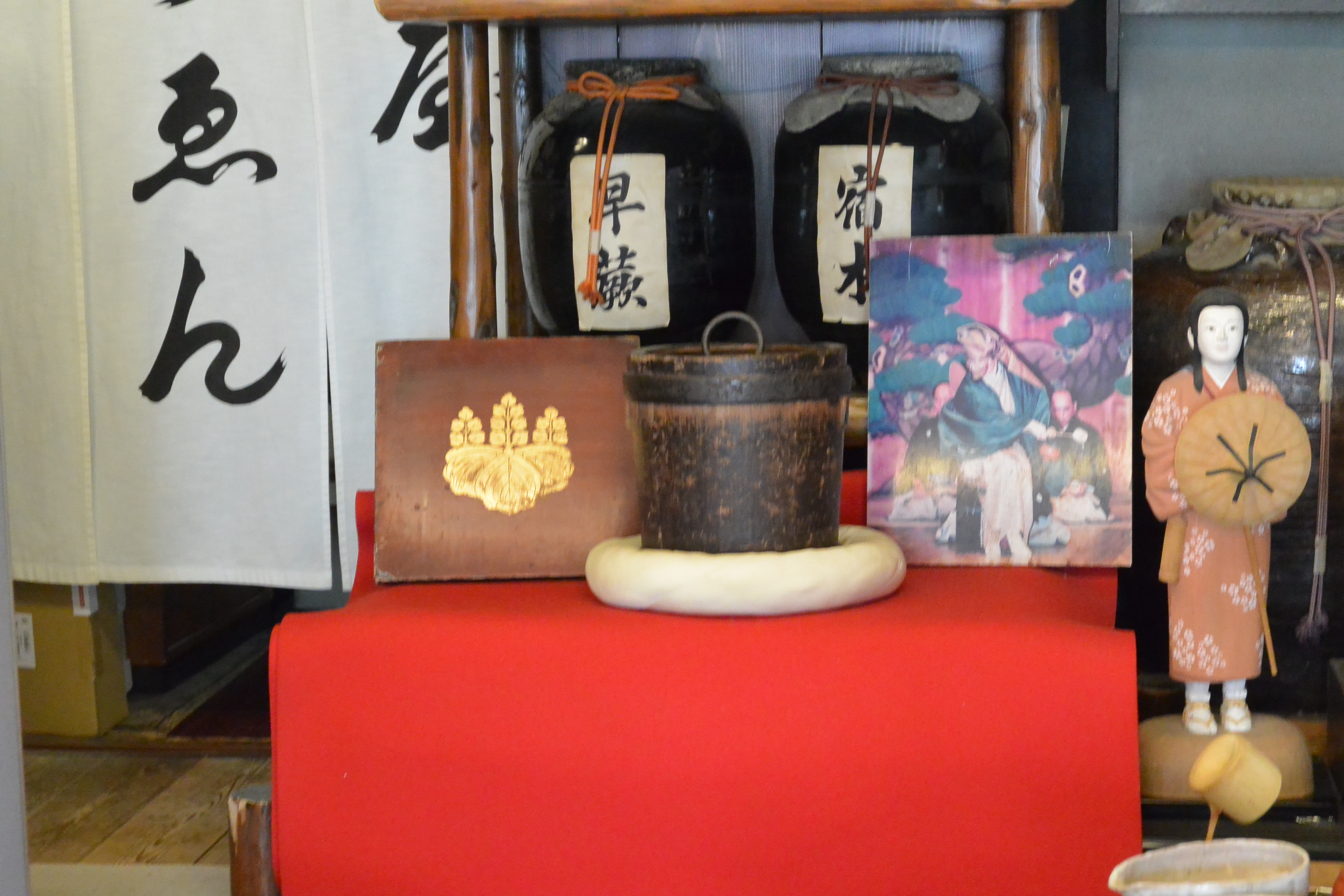 Old wooden bucket given by Toyotomi Hideyoshi, at tea restaurant Tuu-en